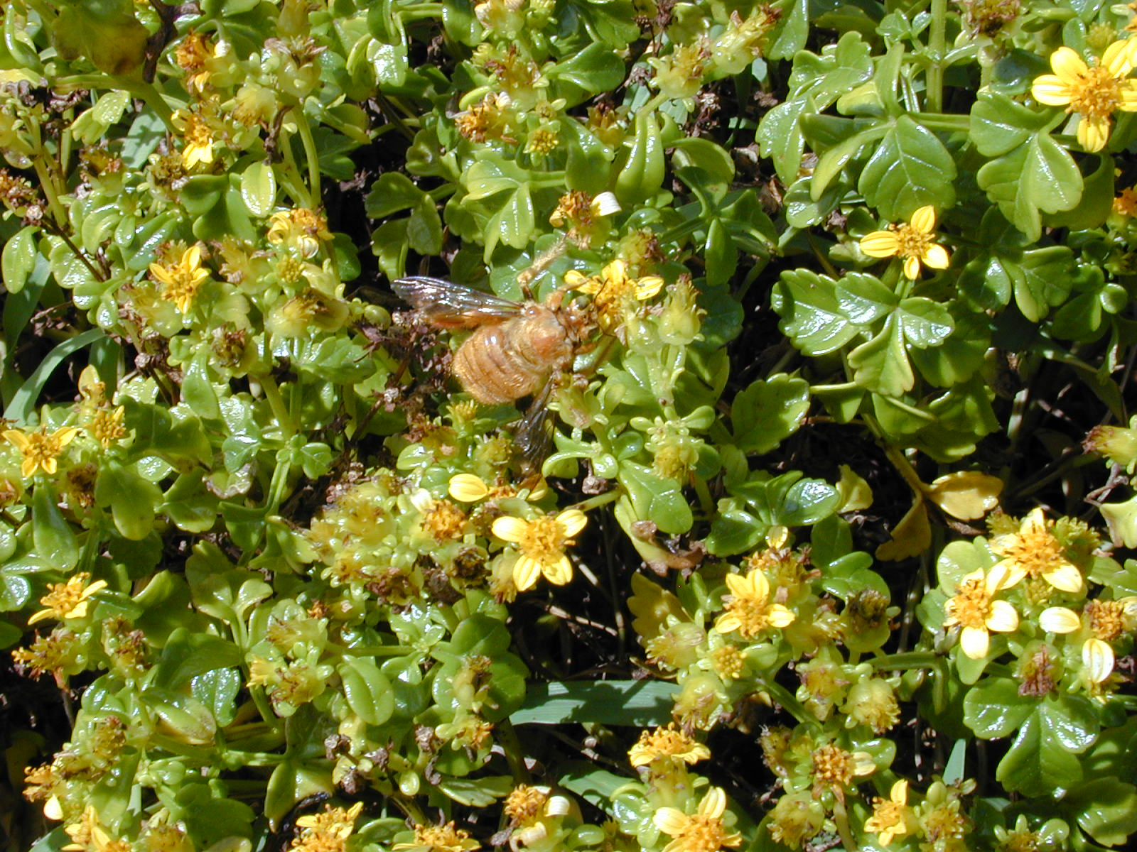 Bidens hillebrandiana (flowers with carpenter bee). Location: Maui, Pauwalu Pt